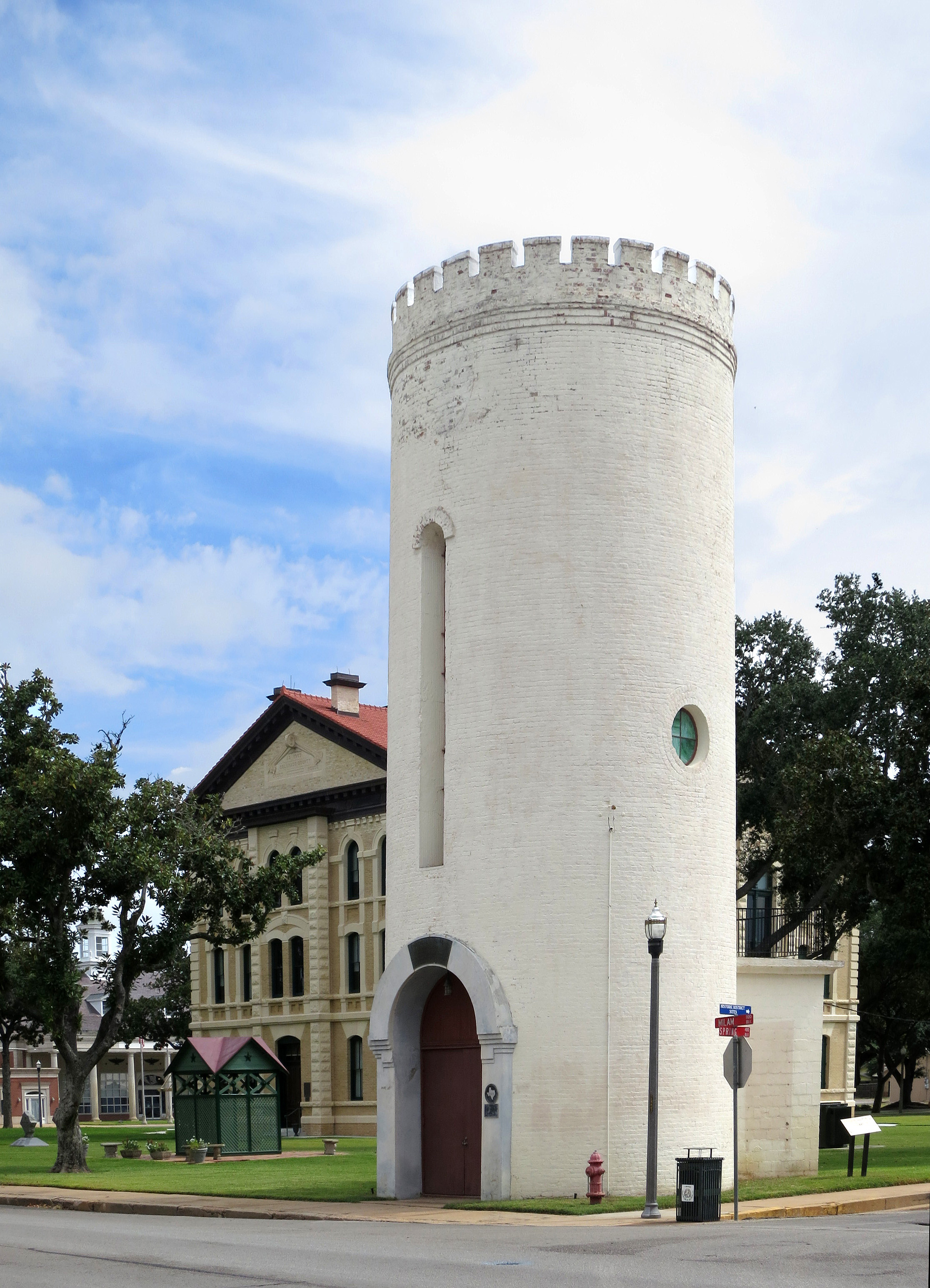 Built 1883 by town of Columbus, using over 400,000 handmade bricks. Has 32-inch walls. Served as water tower and fire house until 1912. Since 1926 owned by Shropshire-Upton Chapter, United Daughters of the Confederacy.